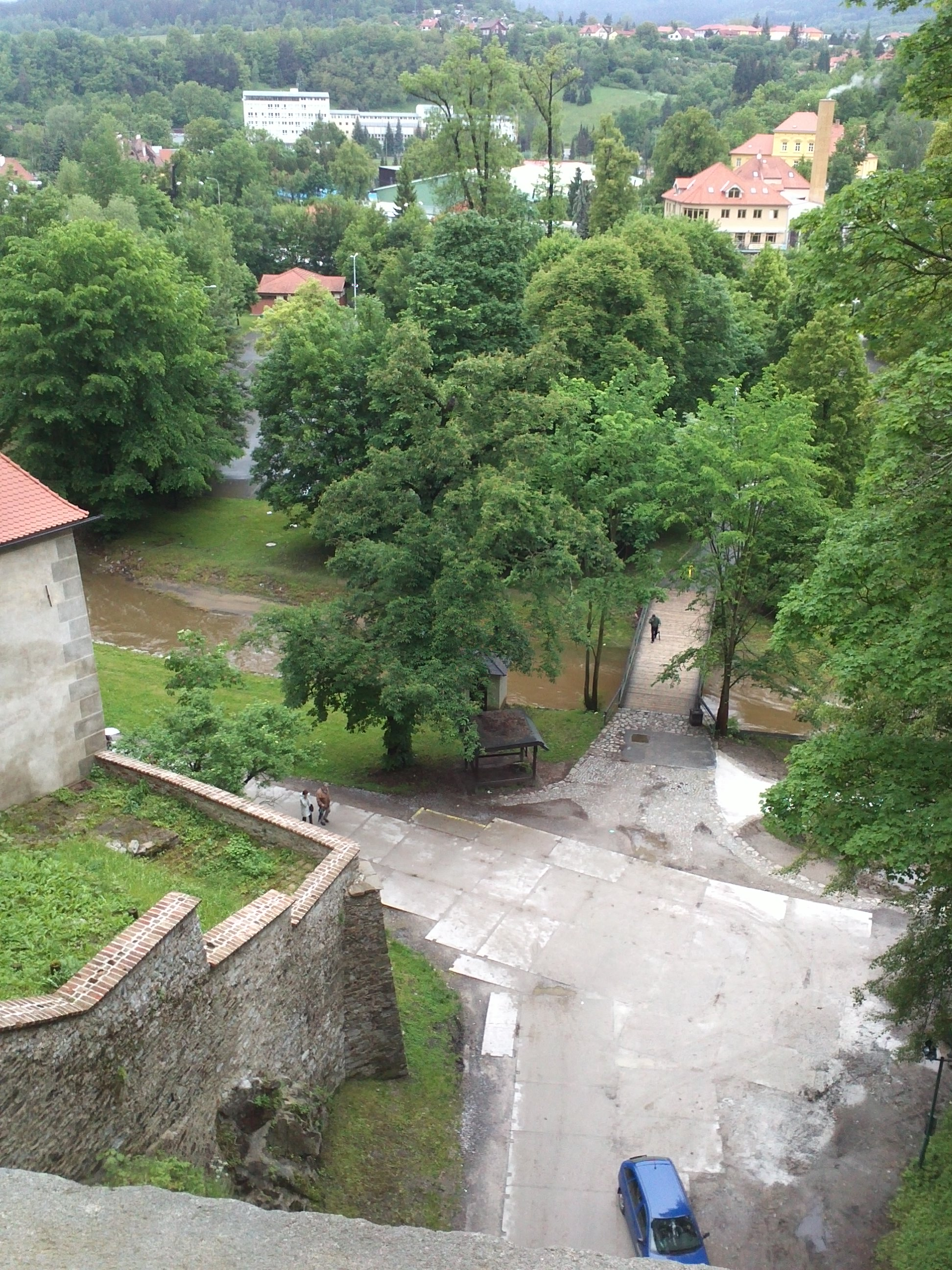 2013 floods of Polečnice in Český Krumlov, Czech Republic.